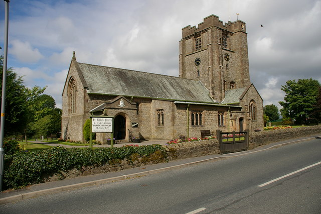 Photograph